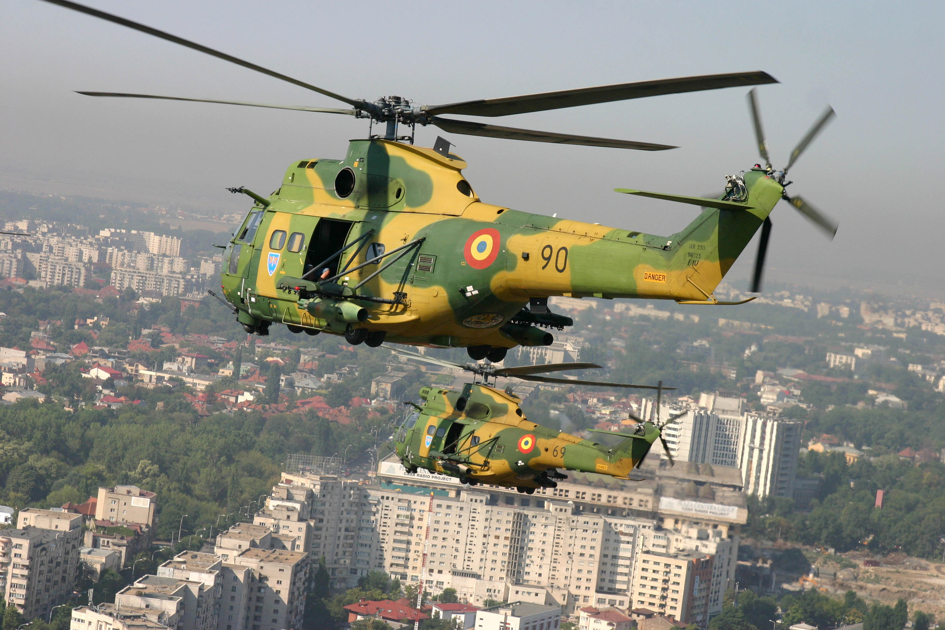 IAR 330 SOCAT helicopters flying over Bucharest during the NATO Summit Preparations.